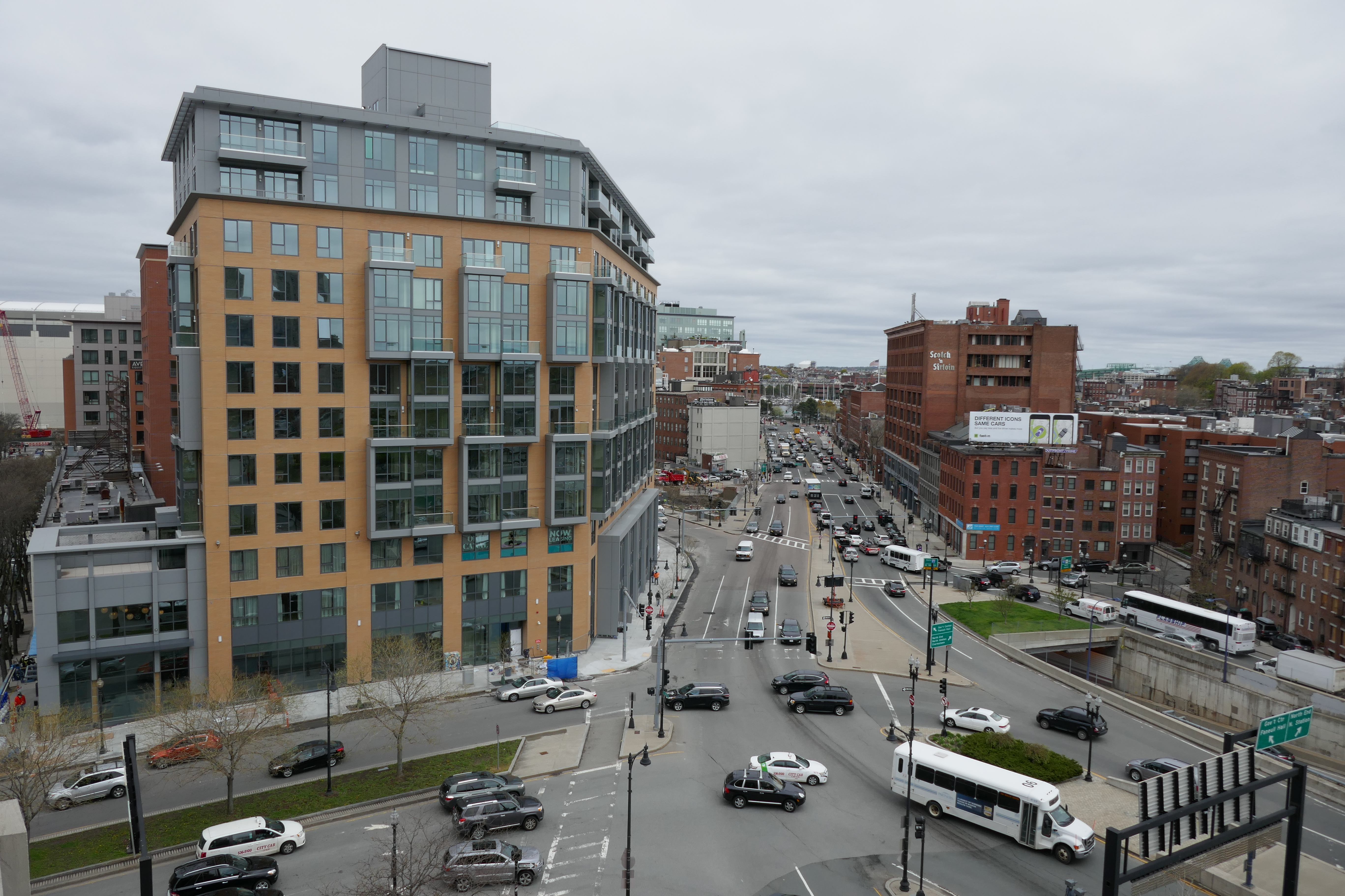 One Canal building under construction on land created by the Big Dig in the Bulfinch Triangle in Boston